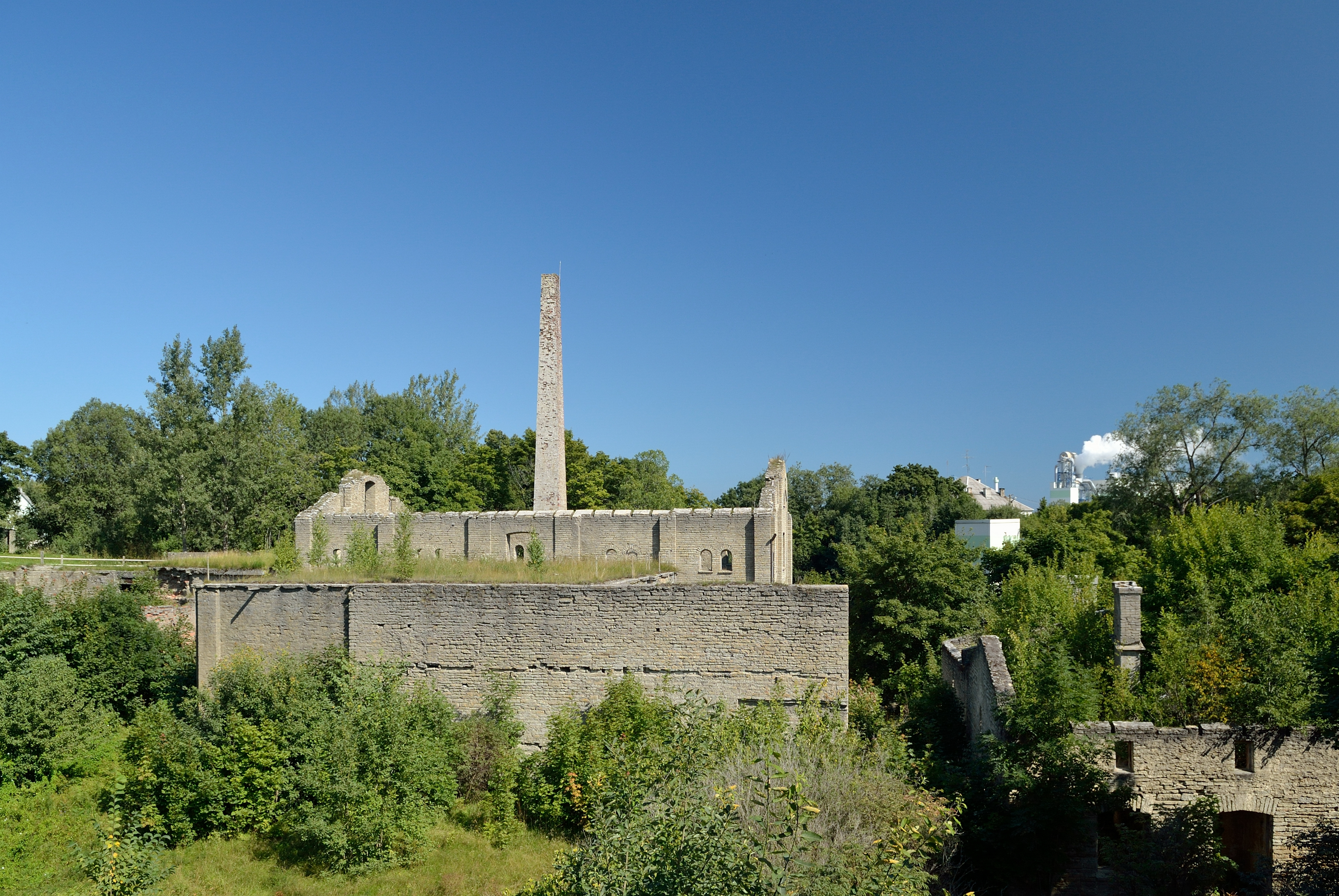 Ruins of Kunda cement factory